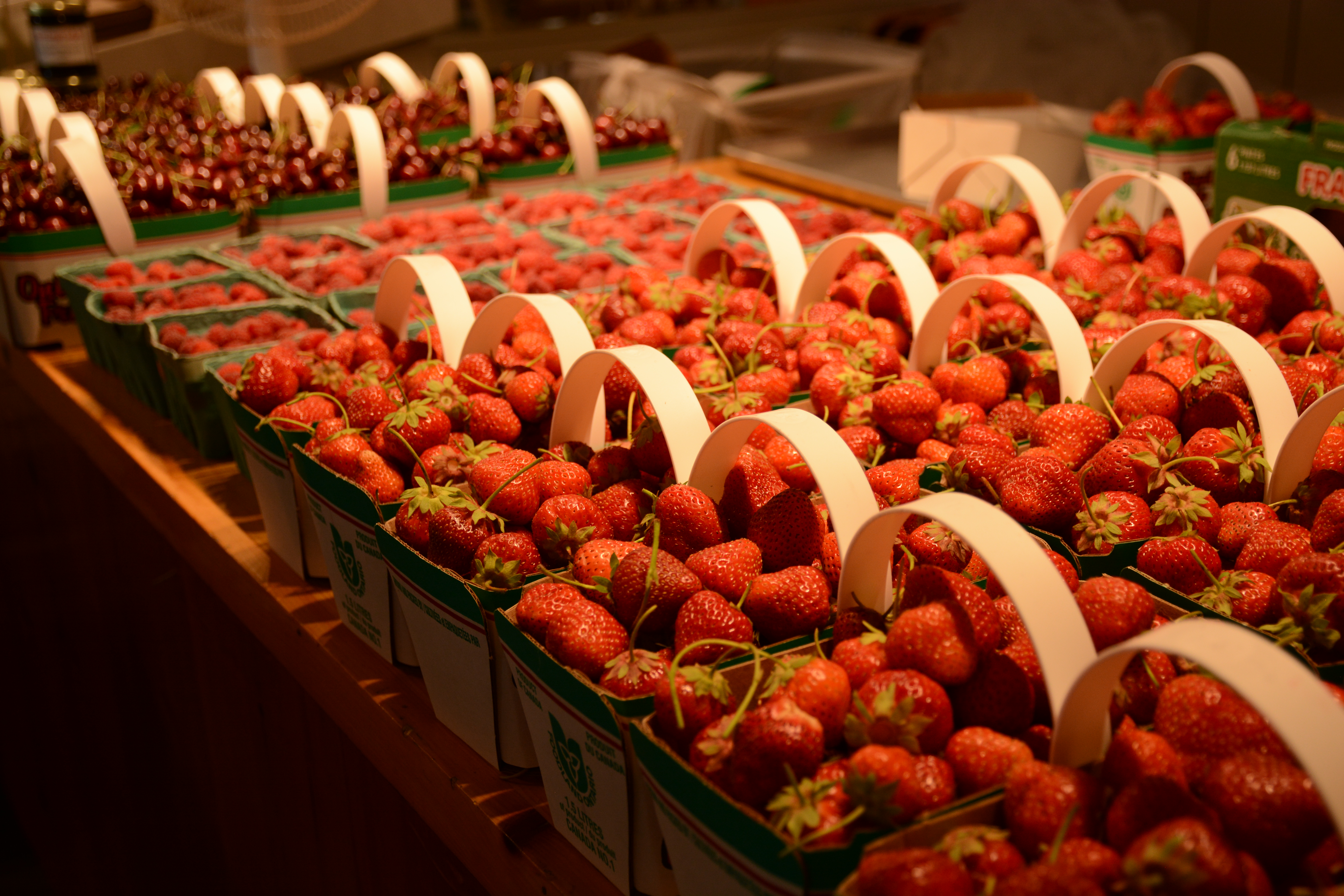 Strawberries for sale